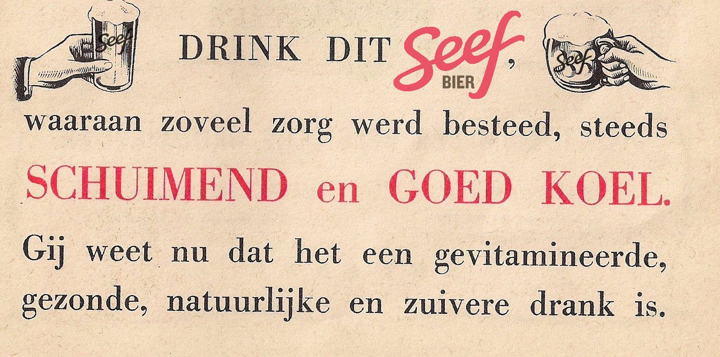 Drink Seef